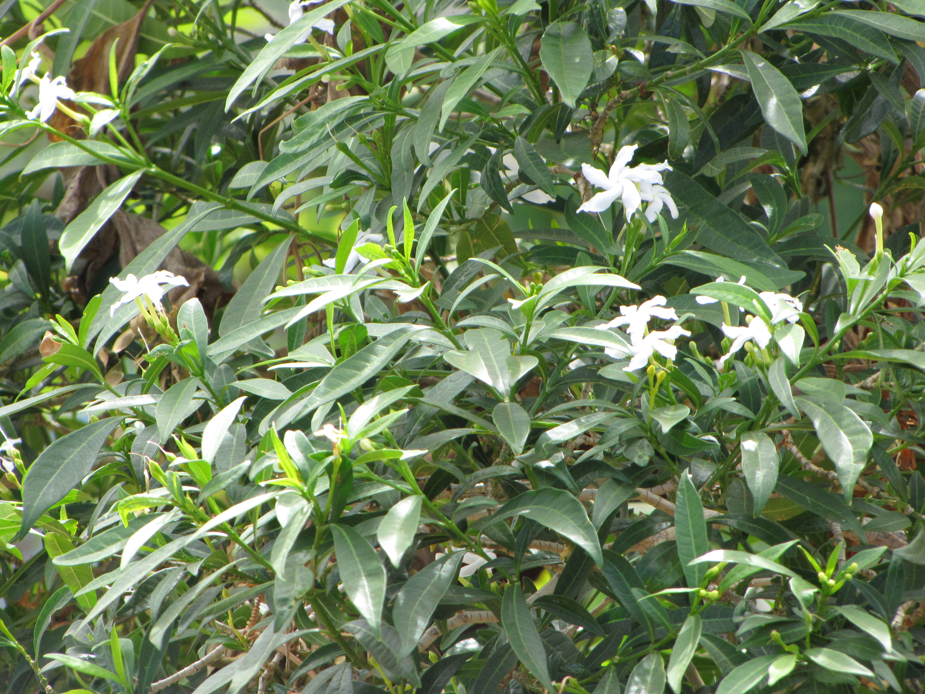 Image Use Policy